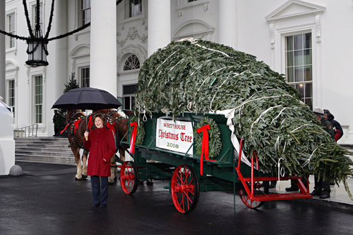 Mrs. Laura Bush delivers remarks as she stands with the White House Christmas tree Sunday, Nov. 30, 2008, in front of the North Portico of the White House. The Fraser Fir tree, from River Ridge Farms in Crumpler, N.C., will be on display in the Blue Room of the White House for the 2008 Christmas season